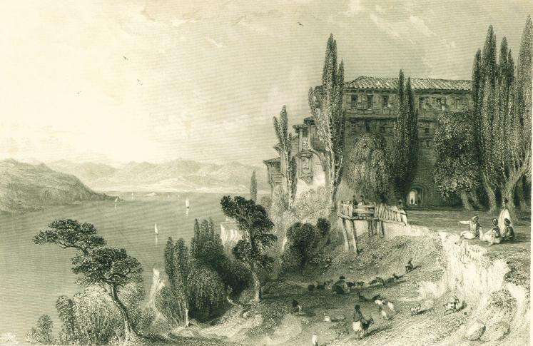 Steel engraving, Monastery, Princes Islands [now part of Turkey]